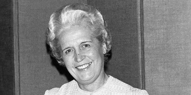 Dame Sheila Quinn, a nurse leader, former President of the Royal College of Nursing and Fellow.